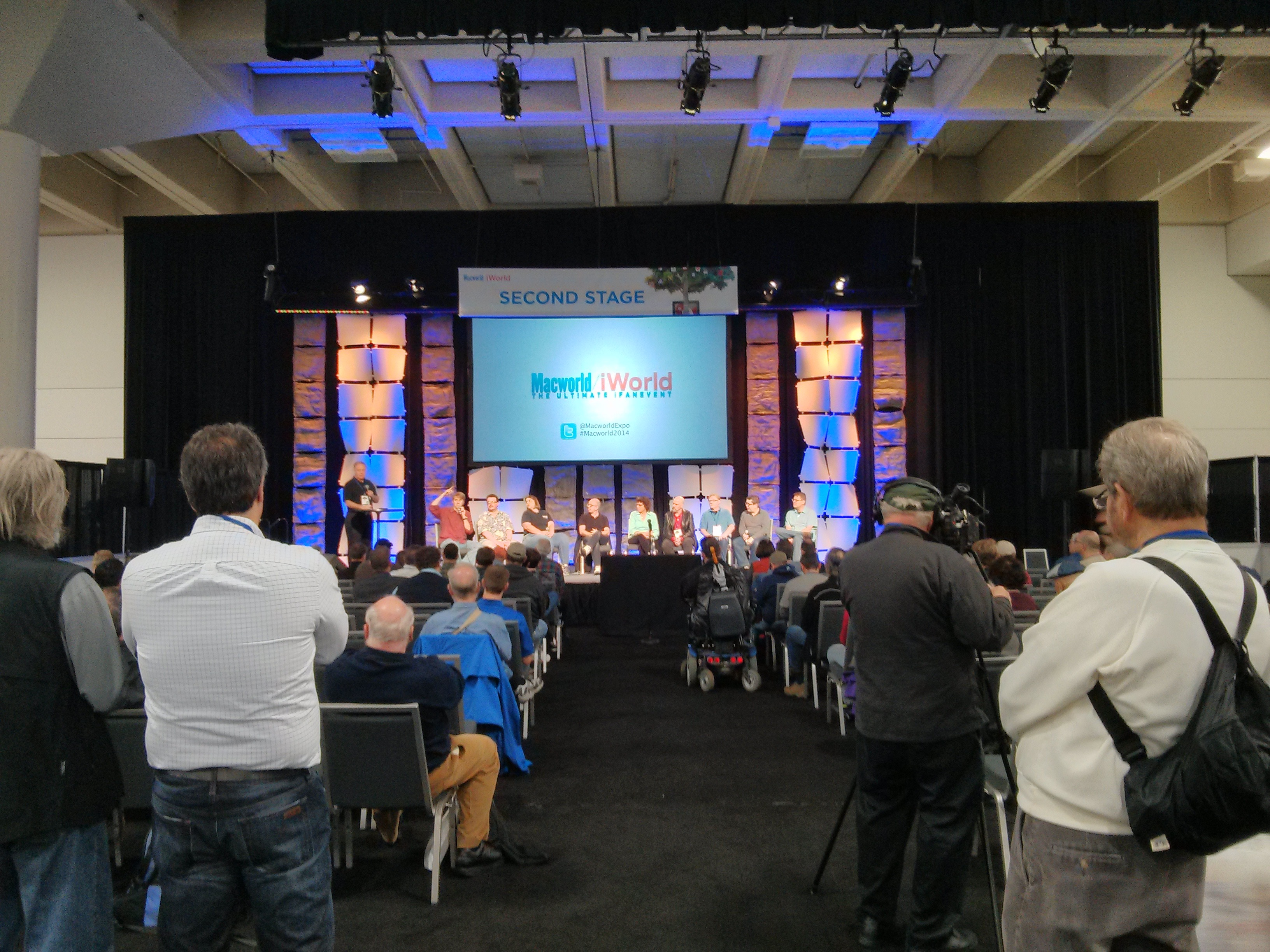 Macworld 2014 Forum Discussion